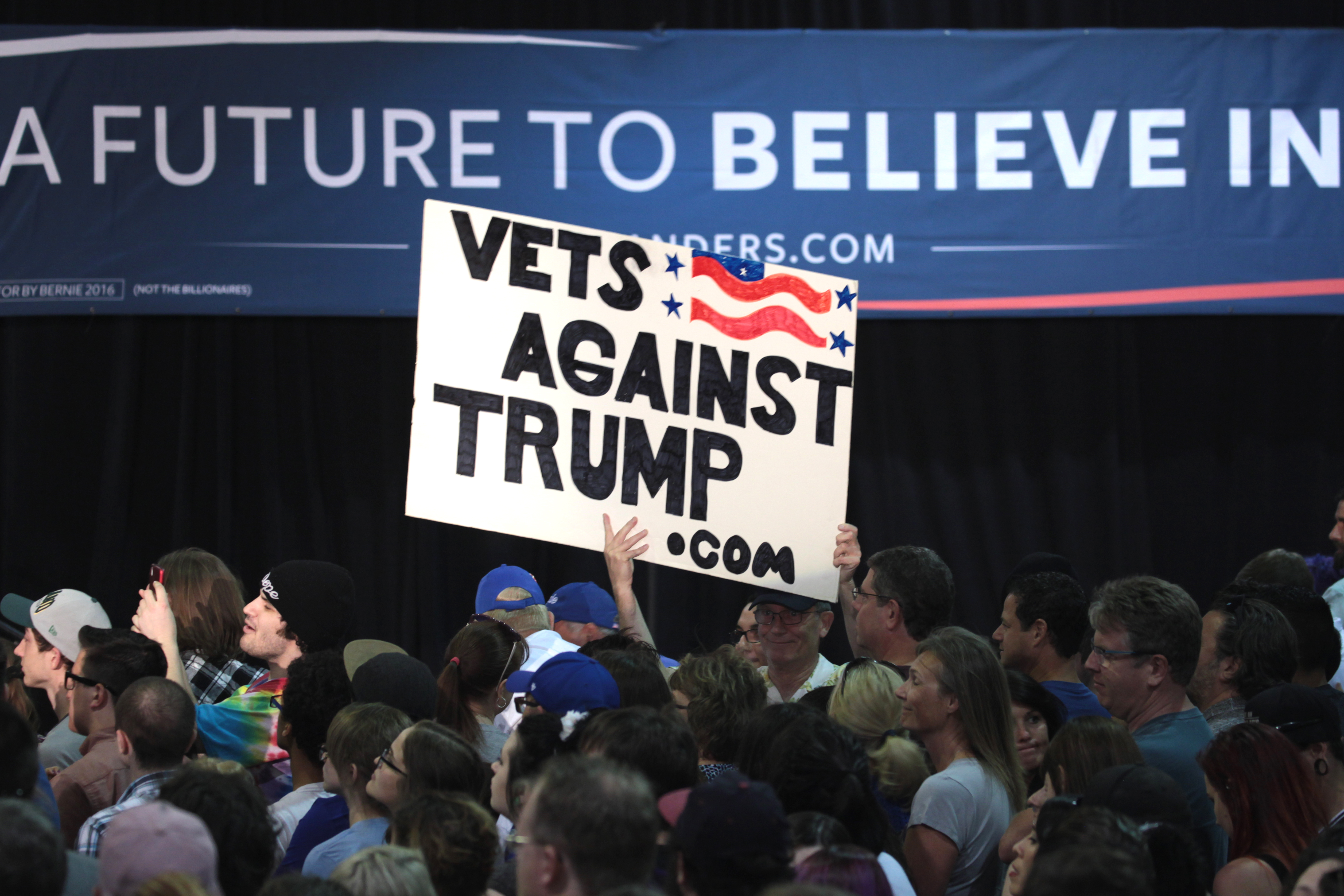 Supporter of U.S. Senator Bernie Sanders with an anti-Donald Trump sign at the Agriculture Center at the Arizona State Fairgrounds in Phoenix, Arizona.